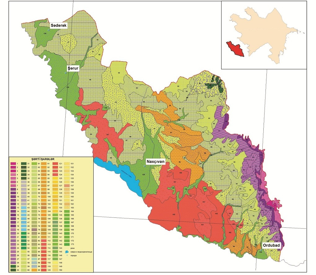 Orta Araz təbii vilayətinin landşaft xəritəsi.